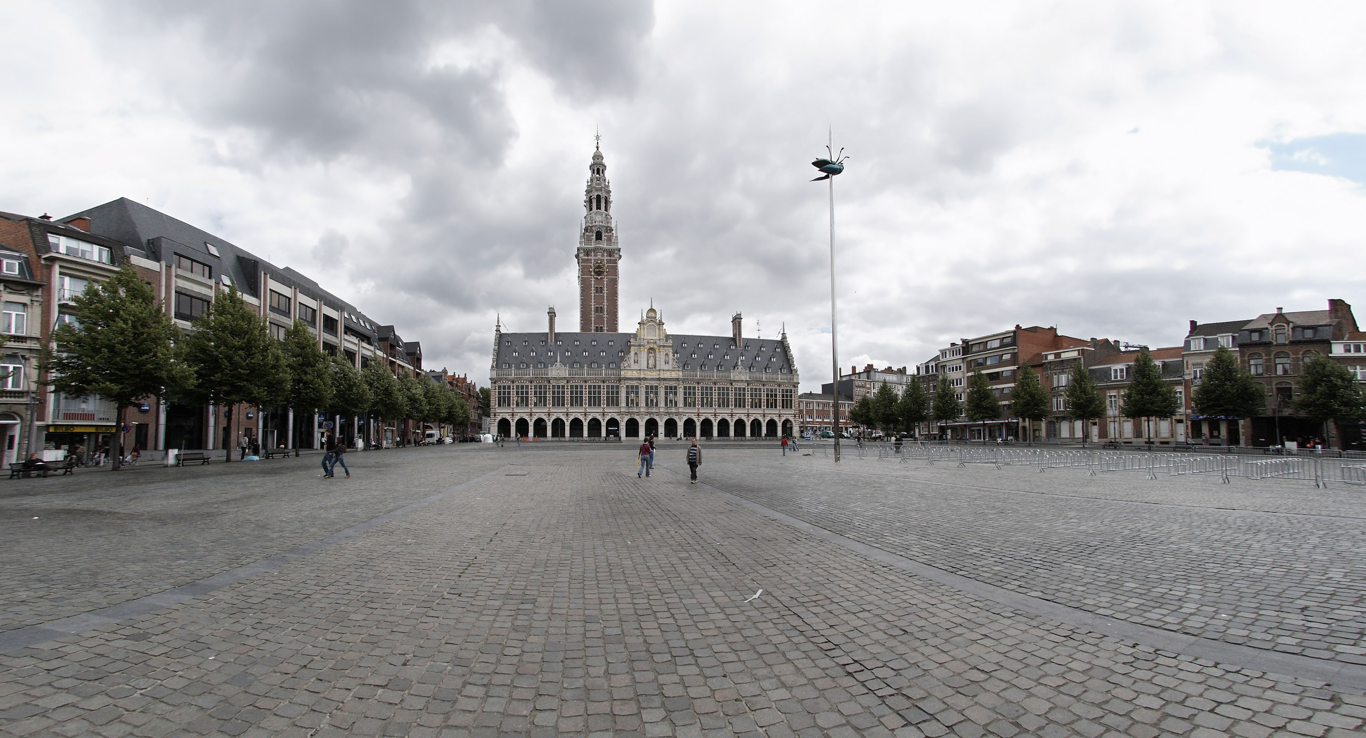 Ladeuzeplein, Leuven with central library. Looking direction South-East - Google Maps - Google Earth